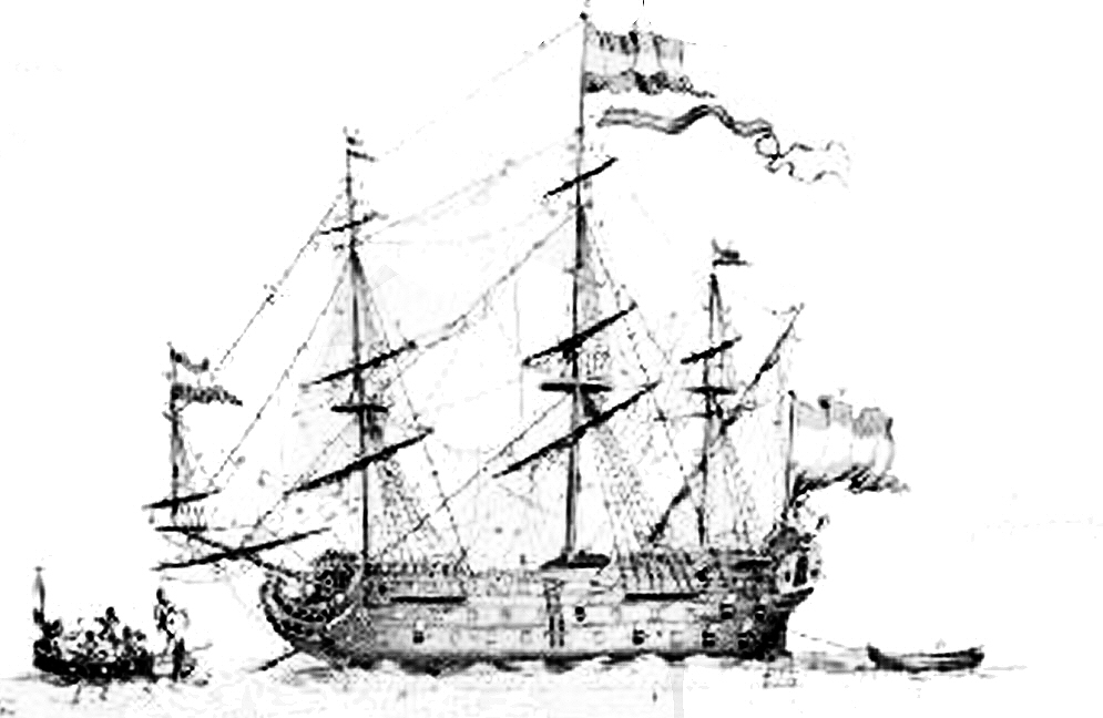 HMS Corontation, sunken in 1691